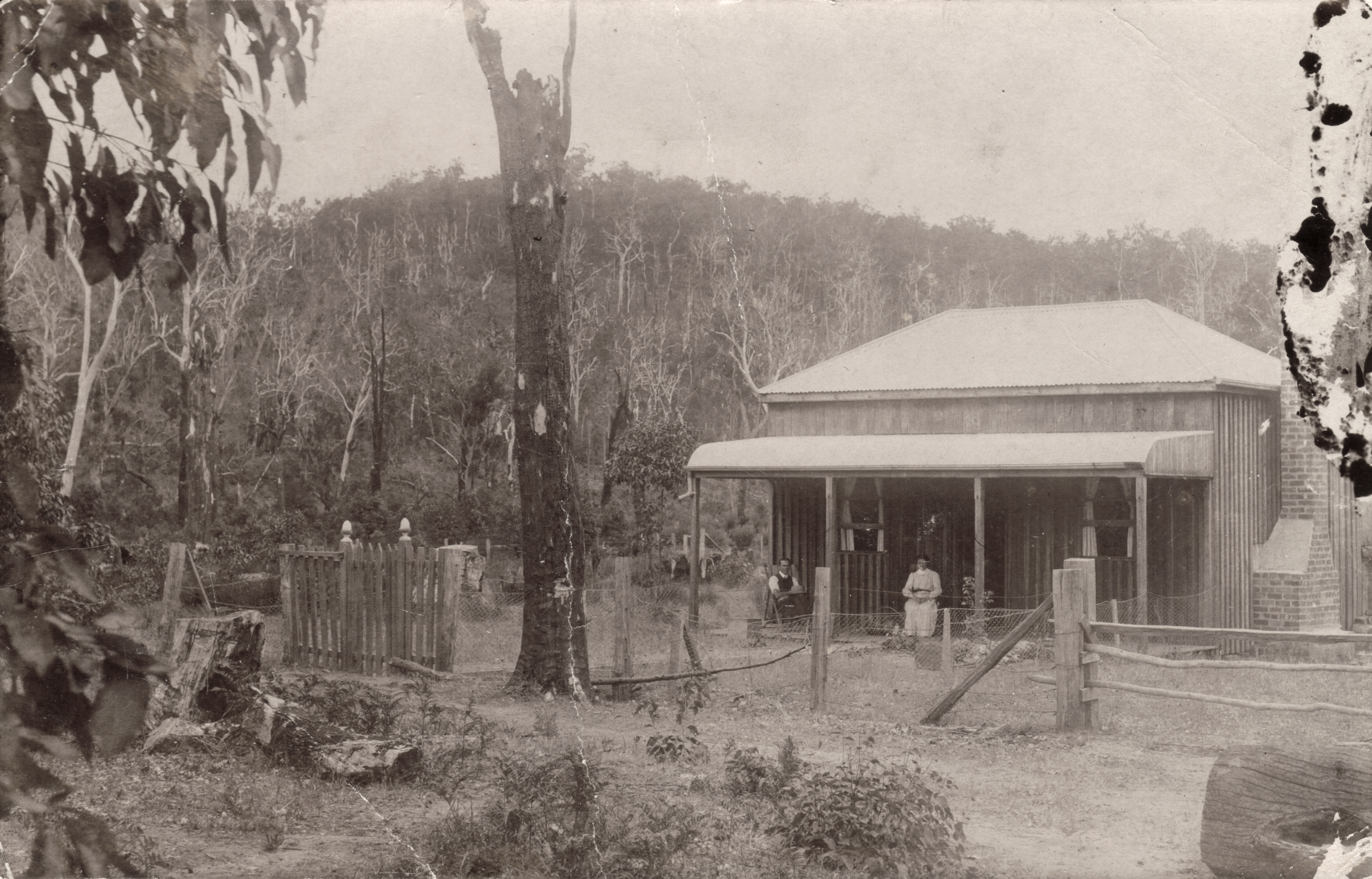 Mullalyup House, circa 1911